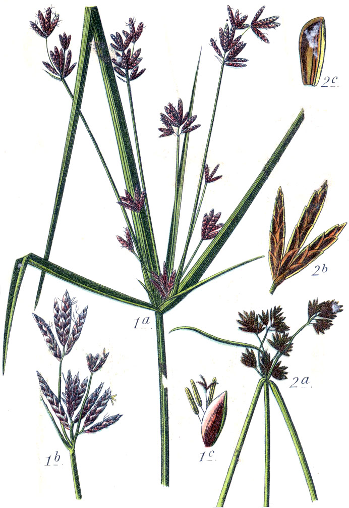 1: Cyperus longus L. 2. Cyperus longus subsp. badius (Desf.) Bonnier & Layens Original Caption 1. Langes Cypergras, Cyperus longus 2. Kastanienbraunes Cypergras, C. badius